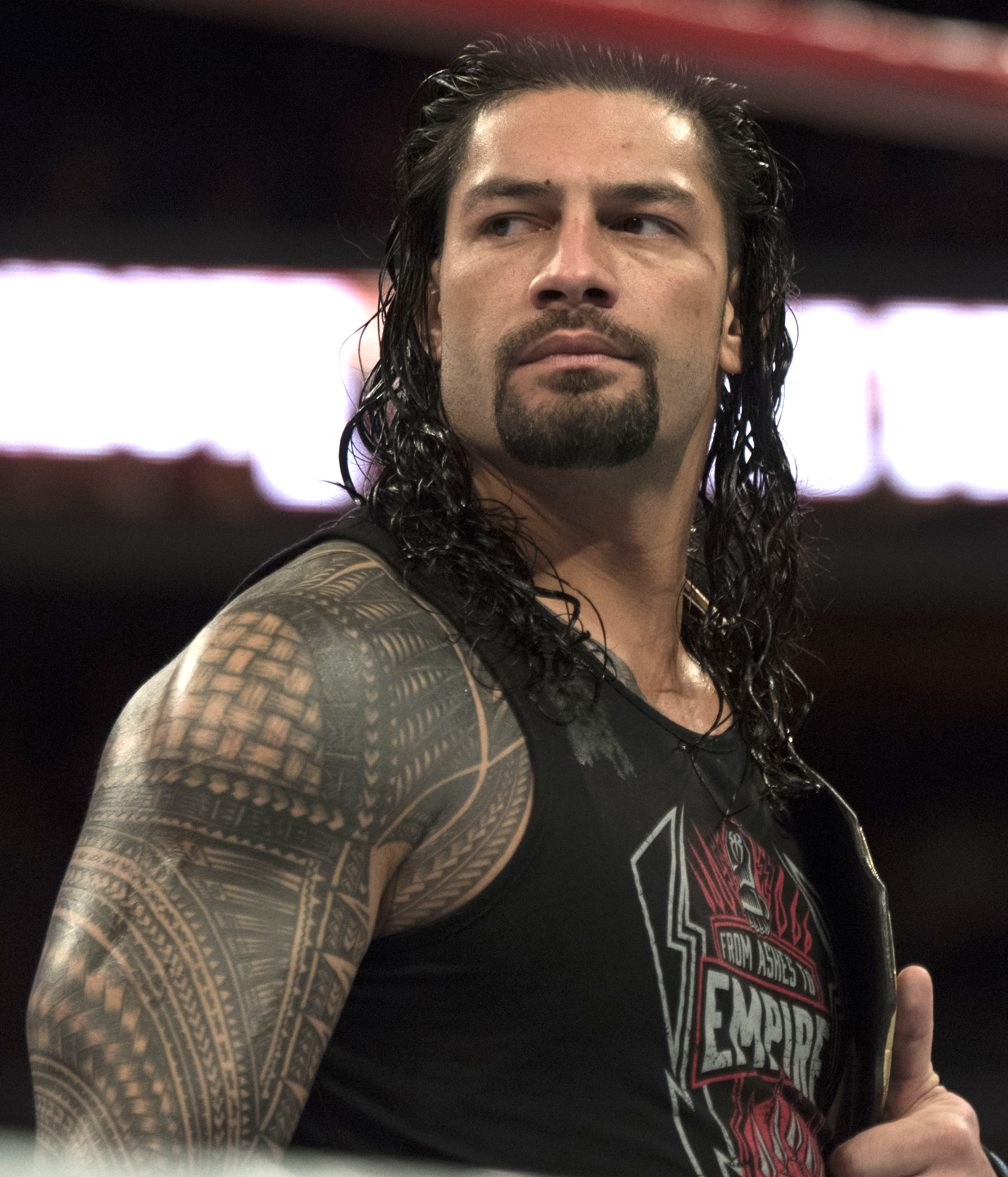 WWE performers Roman Regins participates in the 14th Annual Tribute to the Troops Event at the Verizon Center in Washington, D.C., Dec. 13, 2016. WWE Tribute to the Troops is an annual event held by WWE and Armed Forces Entertainment in December during the holiday season since 2003, to honor and entertain United States Armed Forces members. WWE performers and employees travel to military camps, bases and hospitals, including the Walter Reed National Military Medical Center at Naval Support Activity Bethesda. DoD Photo by Navy Petty Officer 2nd Class Dominique A. Pineiro